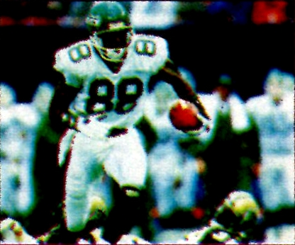 New York Jets' wide receiver Al Toon running with the ball during an October 26, 1986 home game against the New Orleans Saints.